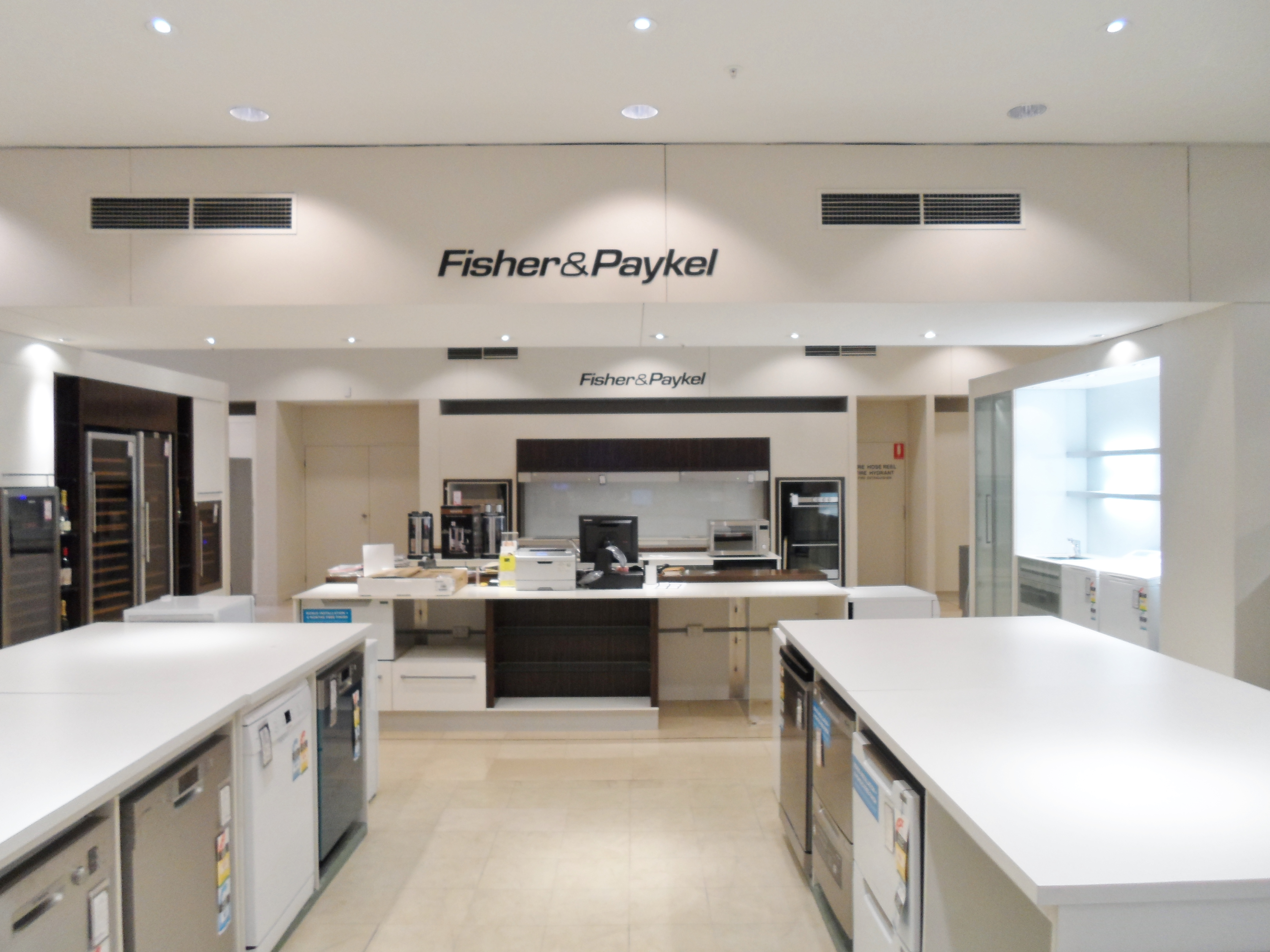 Fisher & Paykel in the Home & Leisure: Large Appliances department on the seventh floor of the Market Street, Sydney branch of Australian department store David Jones in 2013.